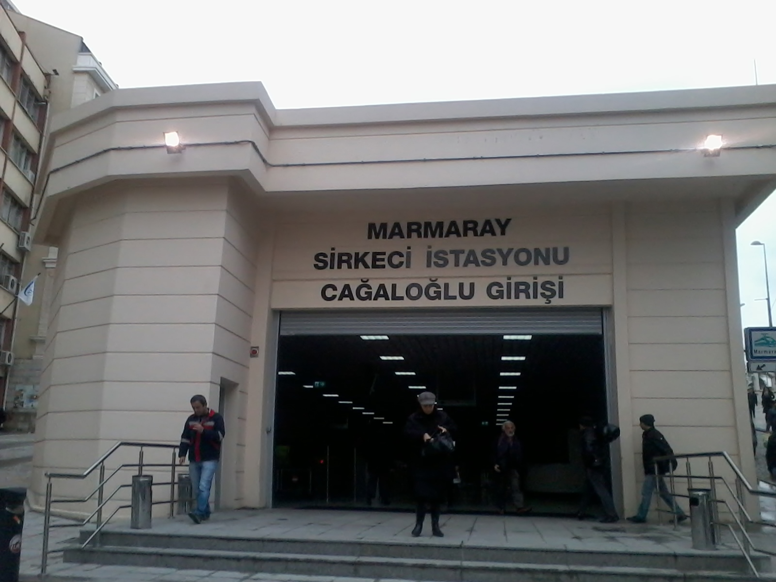 Marmaray - Sirkeci Station Cagaloglu Entrance